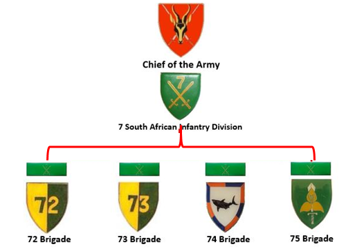 SADF_7_South_African_Infantry_Division_structure 2nd ver